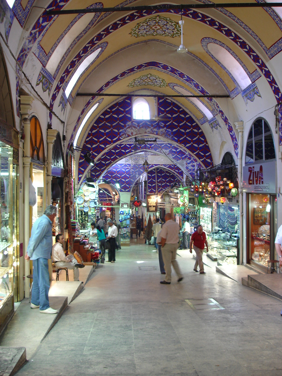 Istanbul Grand Bazaar. Picture by: Giovanni Dall'Orto, May 29 2006.